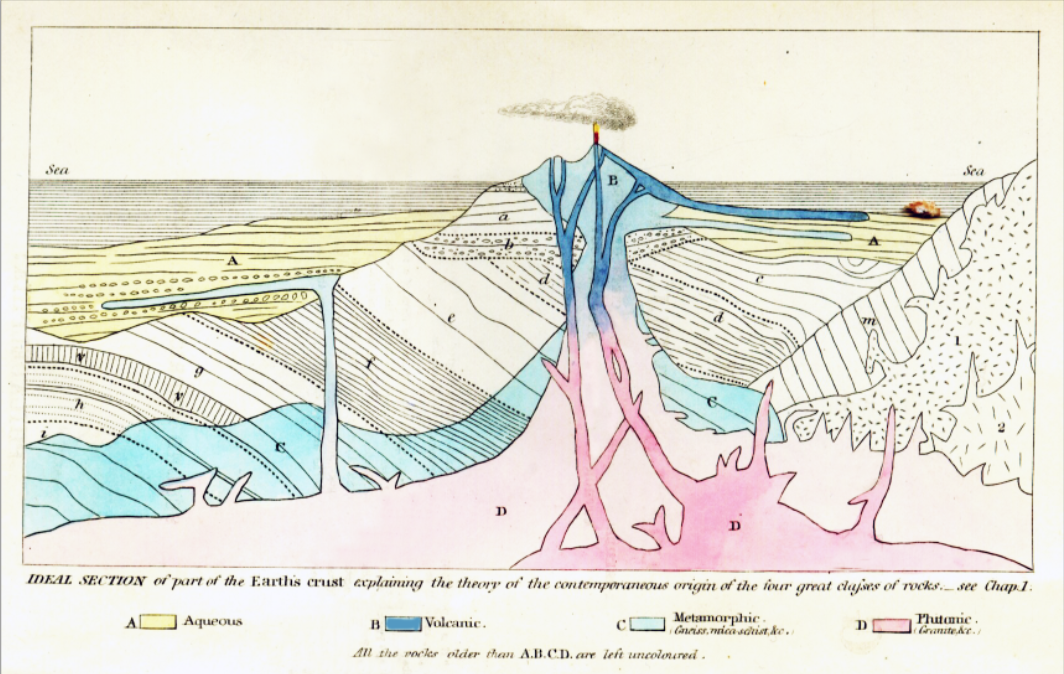 This diagram by Charles Lyell was the first clear description of the earth's crust that combined a descriptions of the relationship in-depth of stratigraphy, structure and igneous rocks